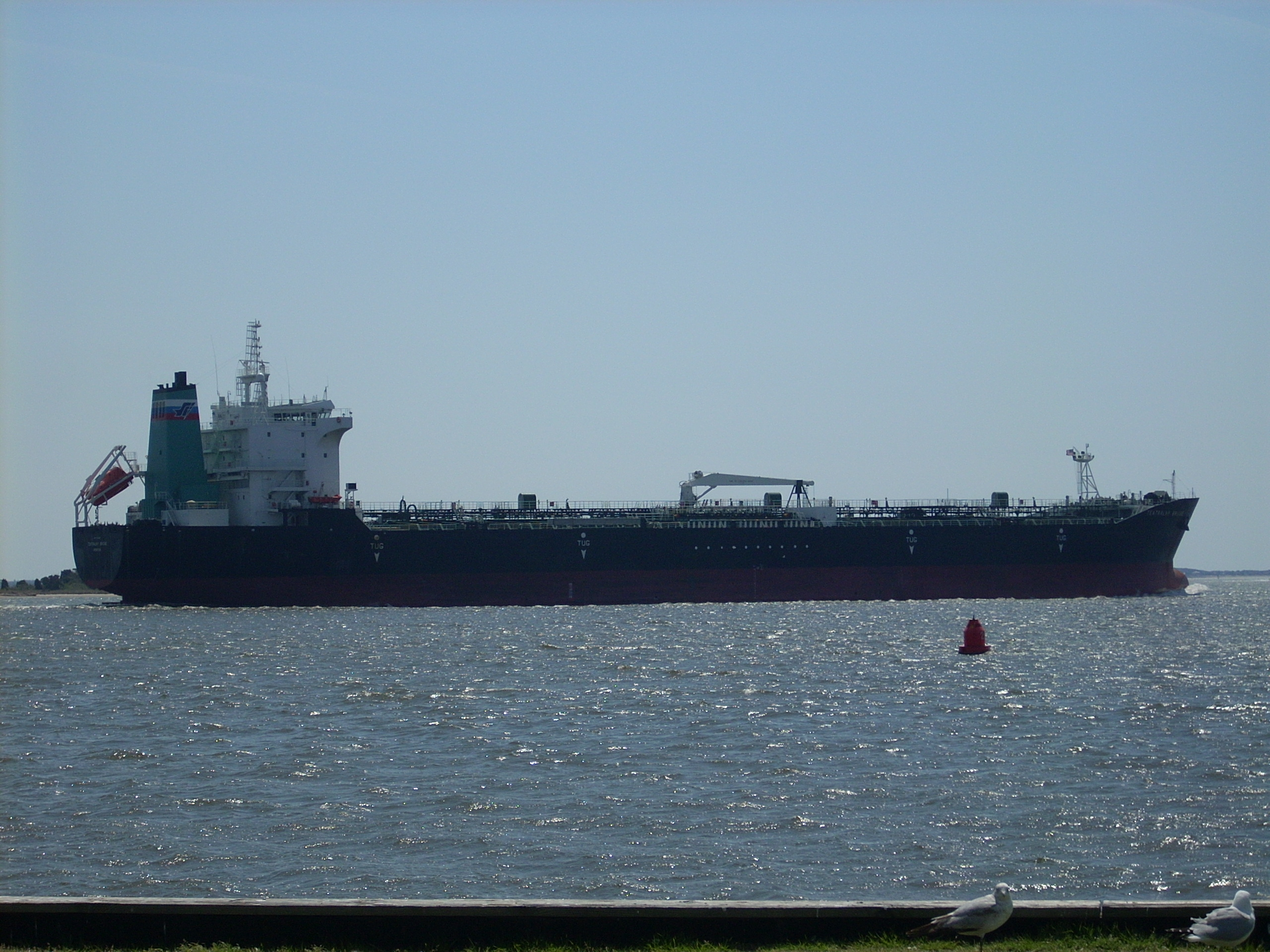 Cargo Ship passing through Southport near the mouth of the Cape Fear River